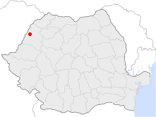 Location of Oradea in Romania.